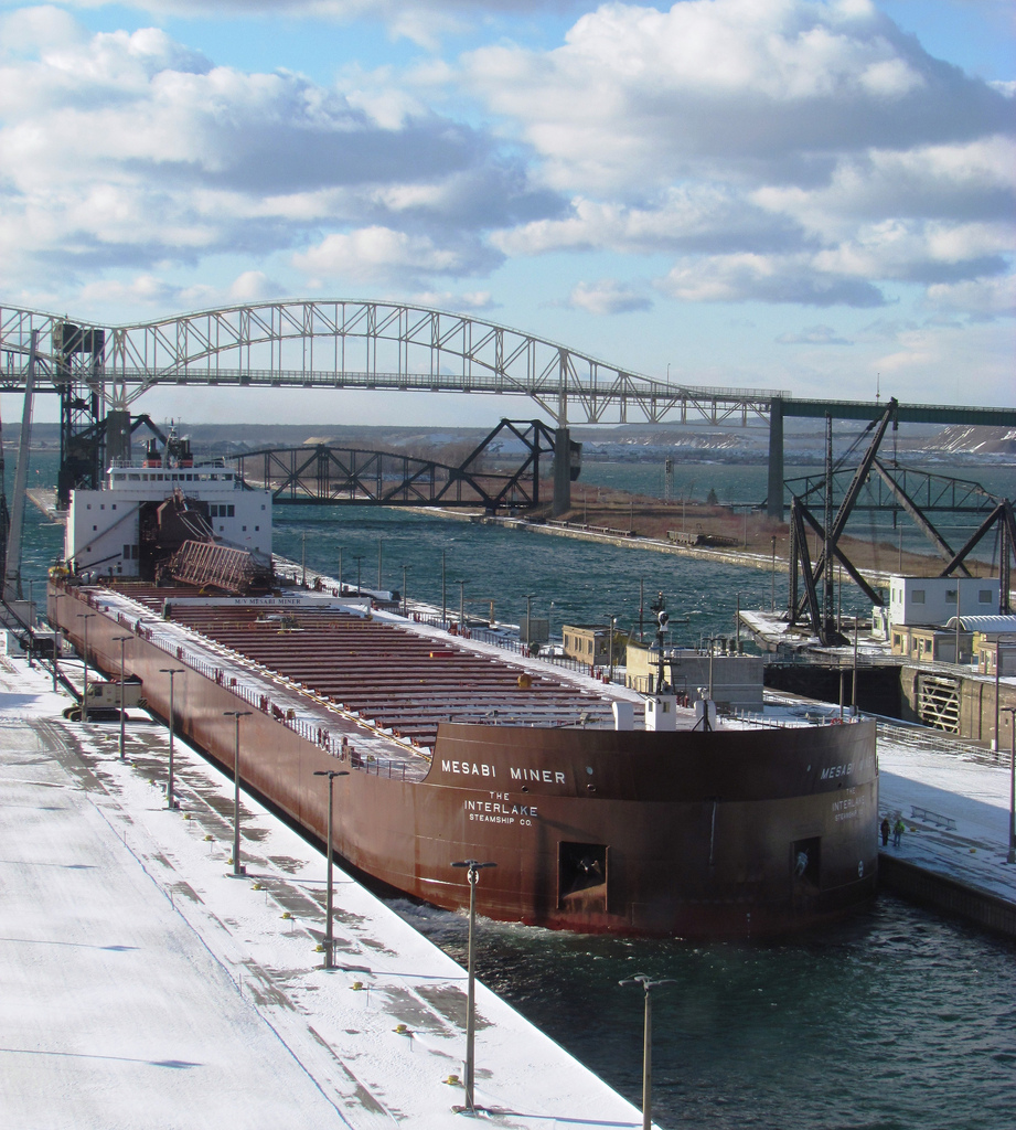 SAULT STE. MARIE, Mich.— The 1000 foot-long Mesabi Miner enters the Poe Lock with sunny skies and 20 mph winds at her stern, Dec. 8, 2011. (U.S. Army Corps of Engineers photo by Michelle Hill)